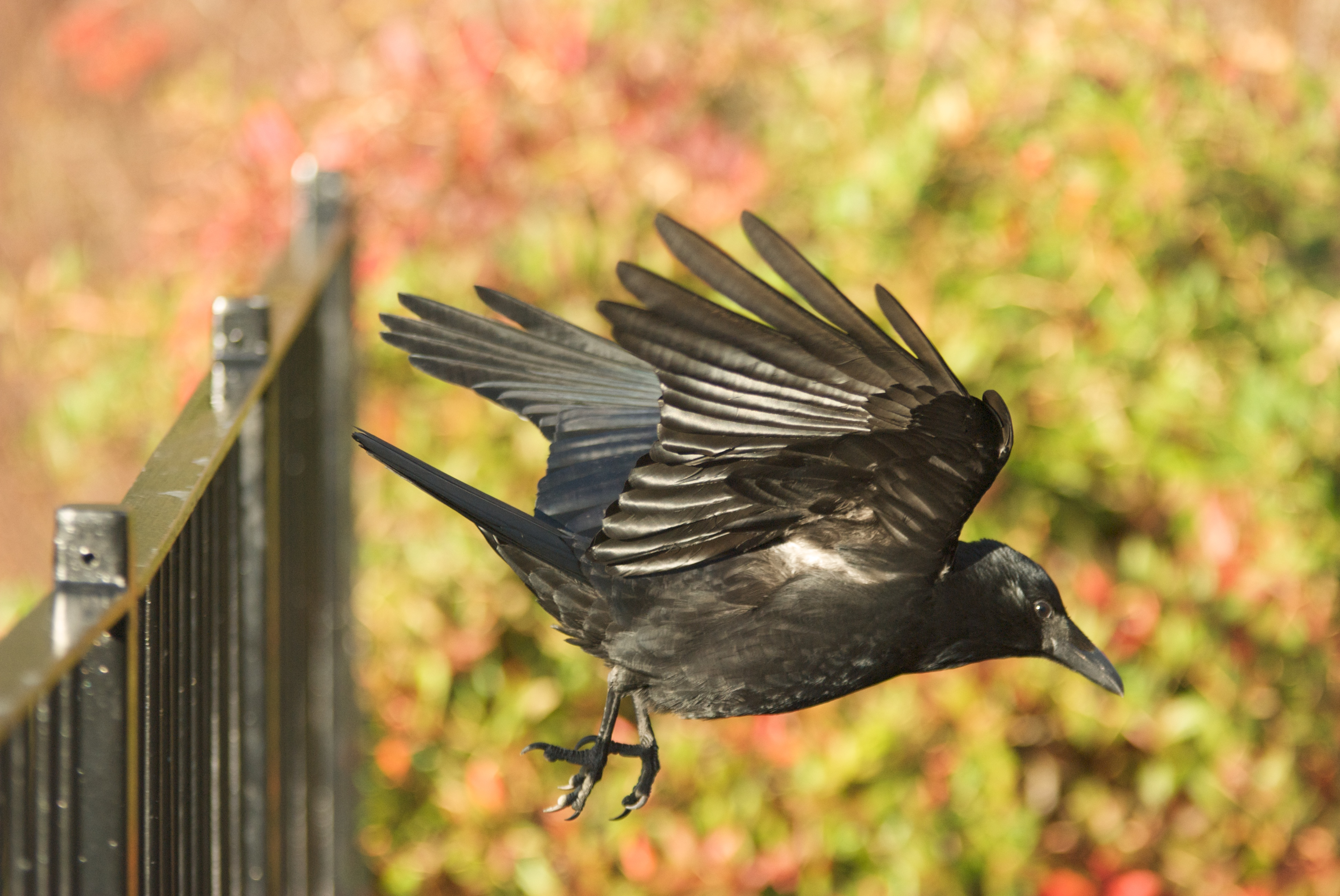 A Carrion Crow just after take-off from a fence. Taken at the Royal Botanical Gardens in Edinburgh, Scotland